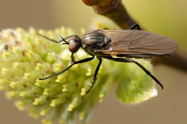 Rhamphomyia sulcata from Commanster, Belgian High Ardennes .